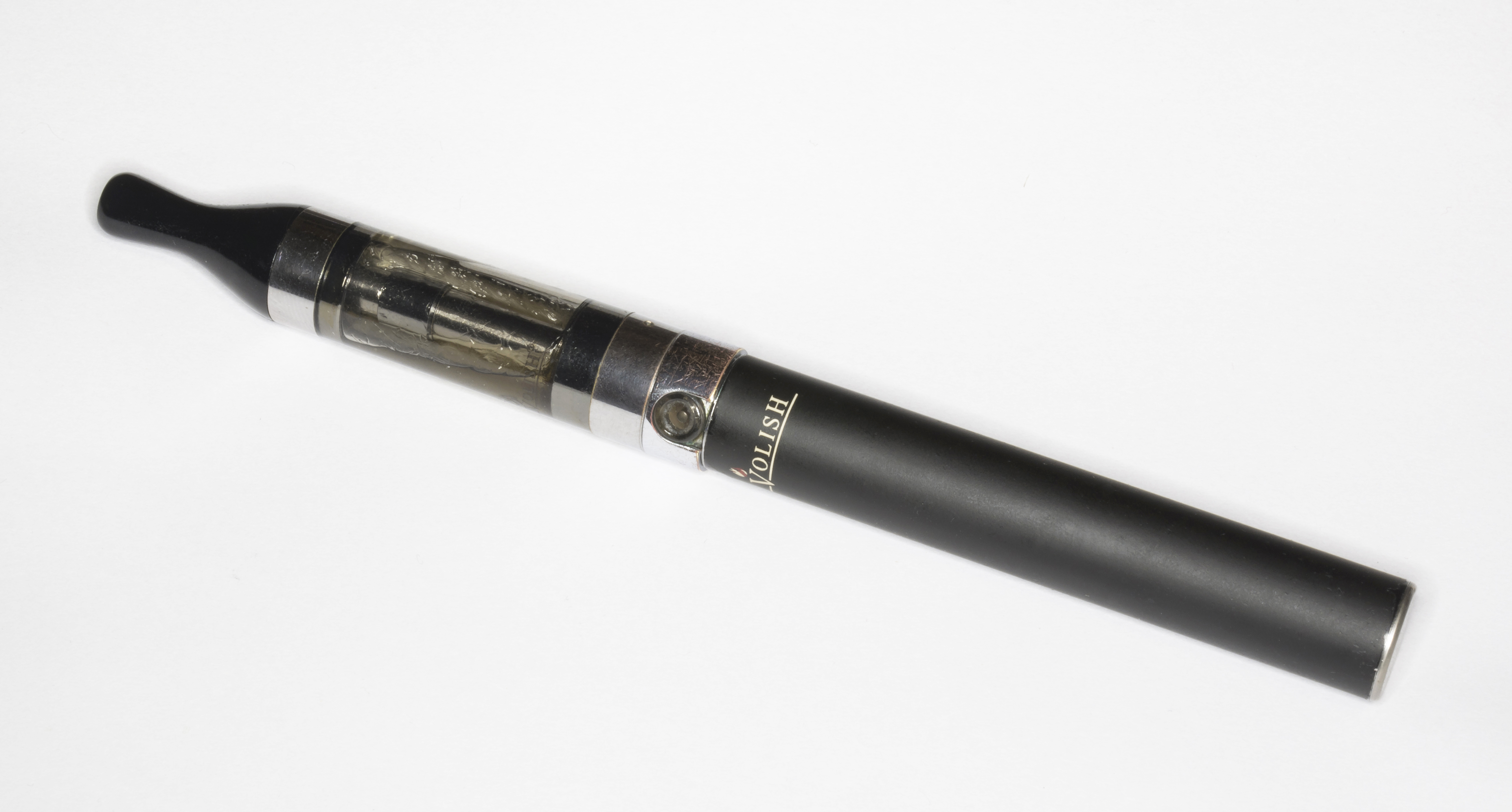 E-cigarette Volish Ego3